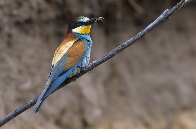 Merops apiaster, Poland